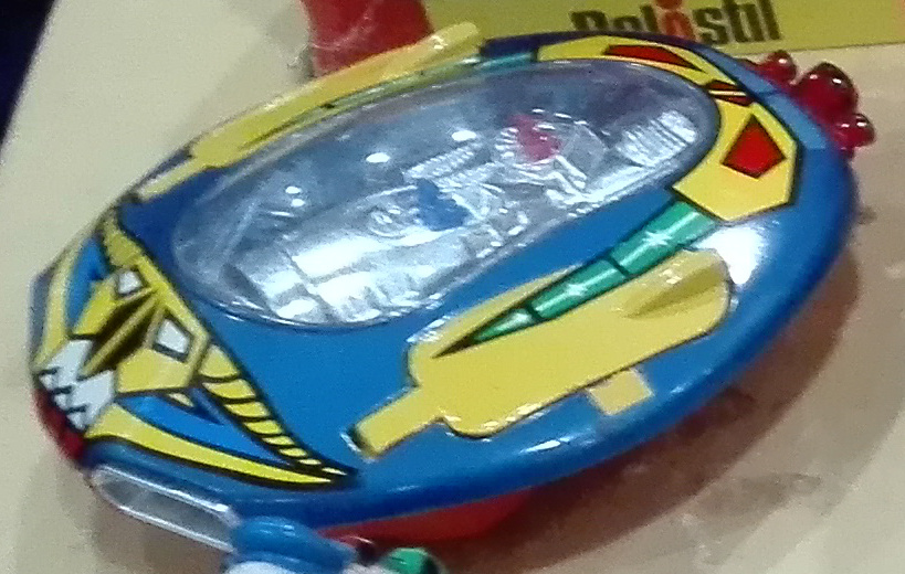 Diecast Polistil Ufobots. Made in Italy near 1979